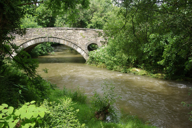 Afon Cych, Abercych At this point, the river forms the boundary between Pembrokeshire (this side) and Carmarthenshire. About a mile to the north, it flows into the Teifi.